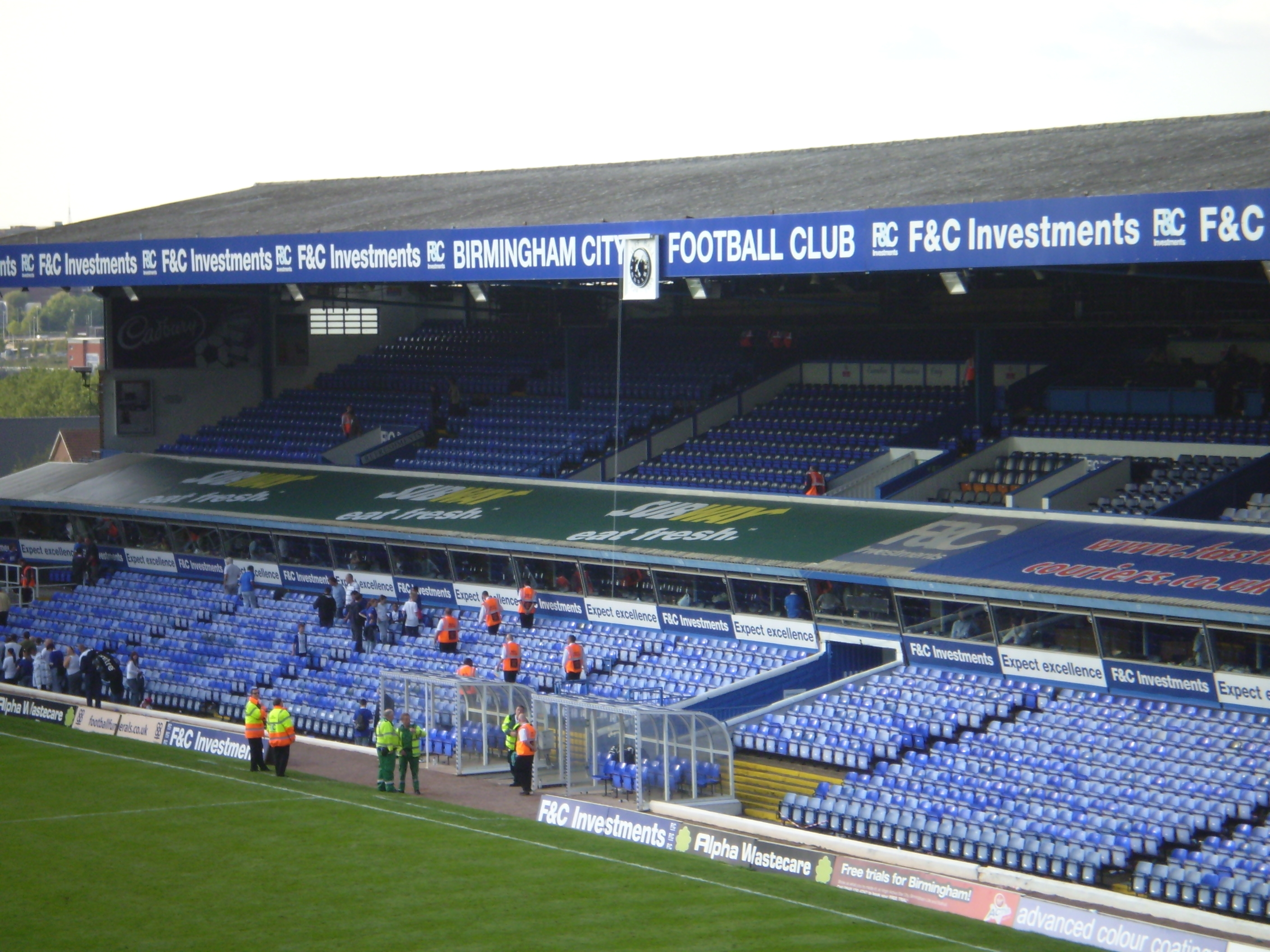 The Main Stand of Birmingham City F.C.'s St Andrew's Stadium on the day the Jeff Hall Memorial Clock was unveiled in September 2008